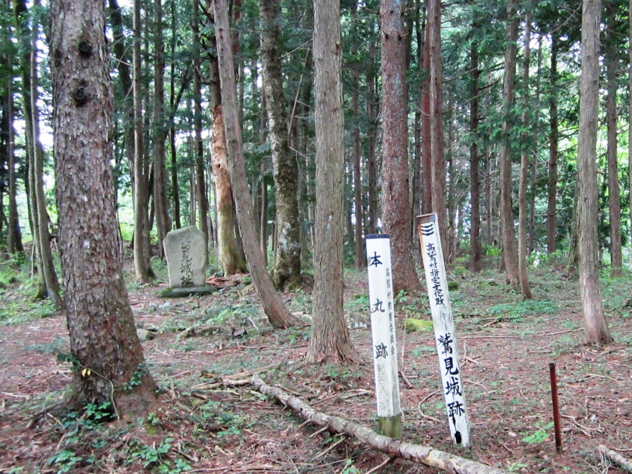 The site of Sumi Castle in Gujo, Gifu.